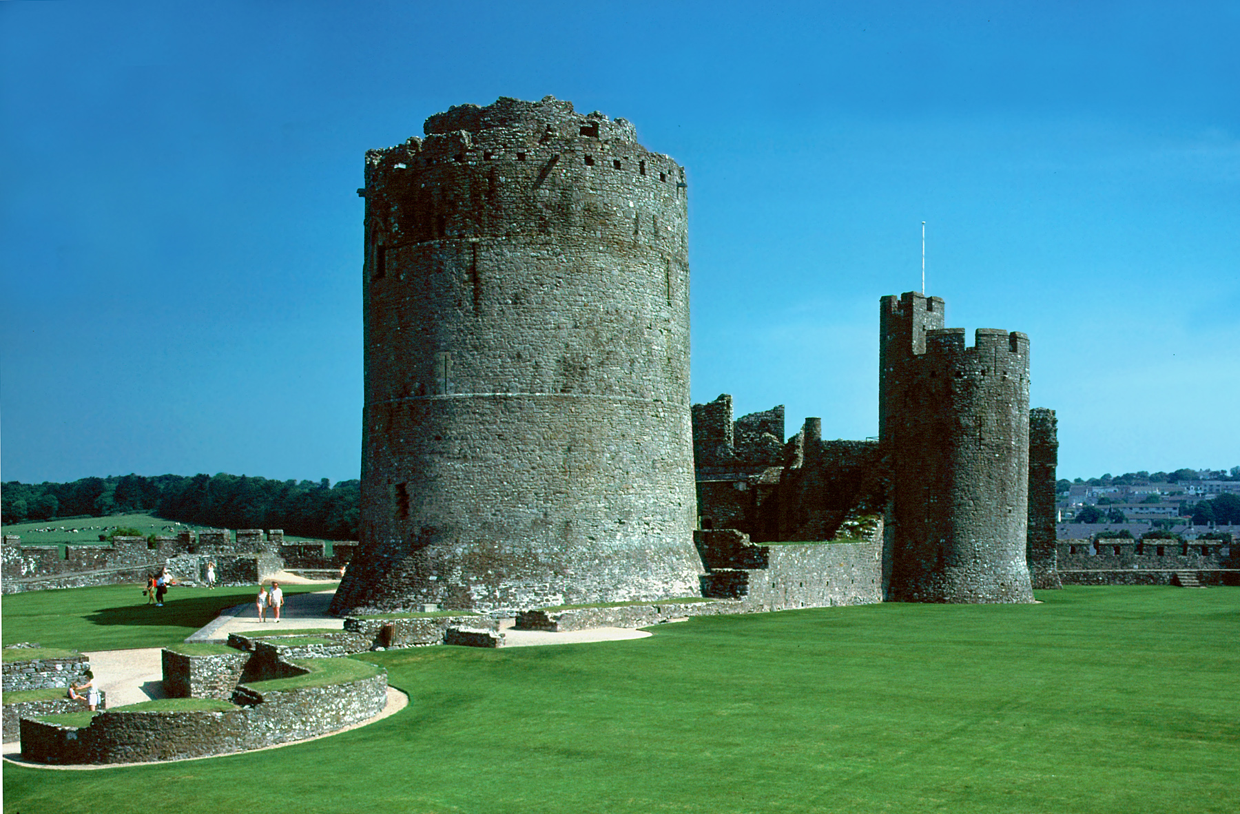 Inner ward and tower of Pembroke Castle, located opposite the village of Milford in South Wales/GB